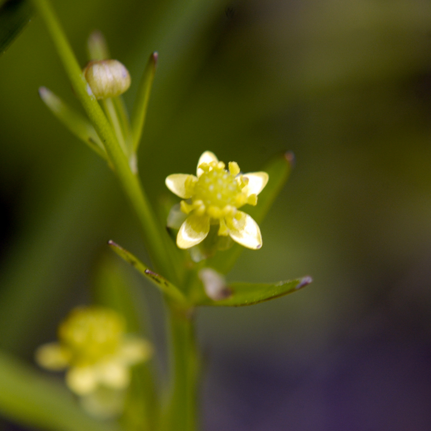 Ranunculus abortivus, James Woodworth Prairie Preserve, Glenview, IL, USA